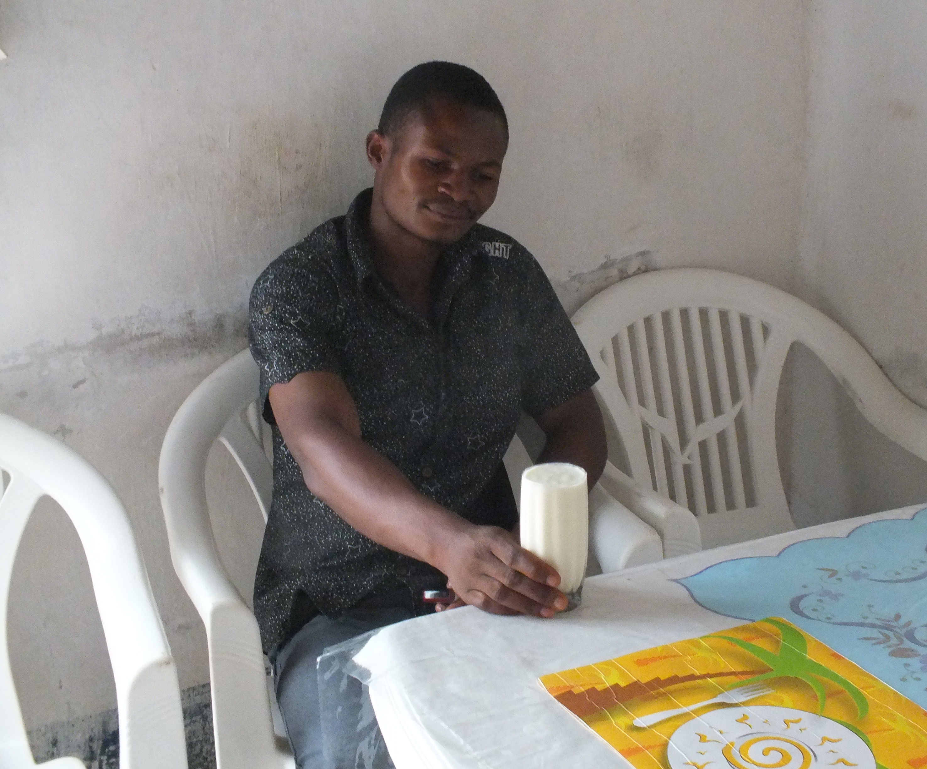 Back to Lake Tanganyika. Here in Kalemie it's "You-gourt", so whenever I used the continental French's "Yaourt" I was little understood. This natural product is produced from fresh milk of Tanganyika cows - grazing only along the shores of the lake in Congo, Tanzania and Burundi and said to be milk-rich comparing with the cattle in the western parts of Congo, where people don't consume fresh milk - according to the owner of this specialized shop/restaurant in Quartier Dav. The guy in the picture is a client like me.